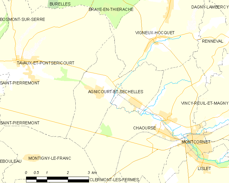 Map of French commune: Agnicourt-et-Séchelles Map commune FR insee code 02004.png